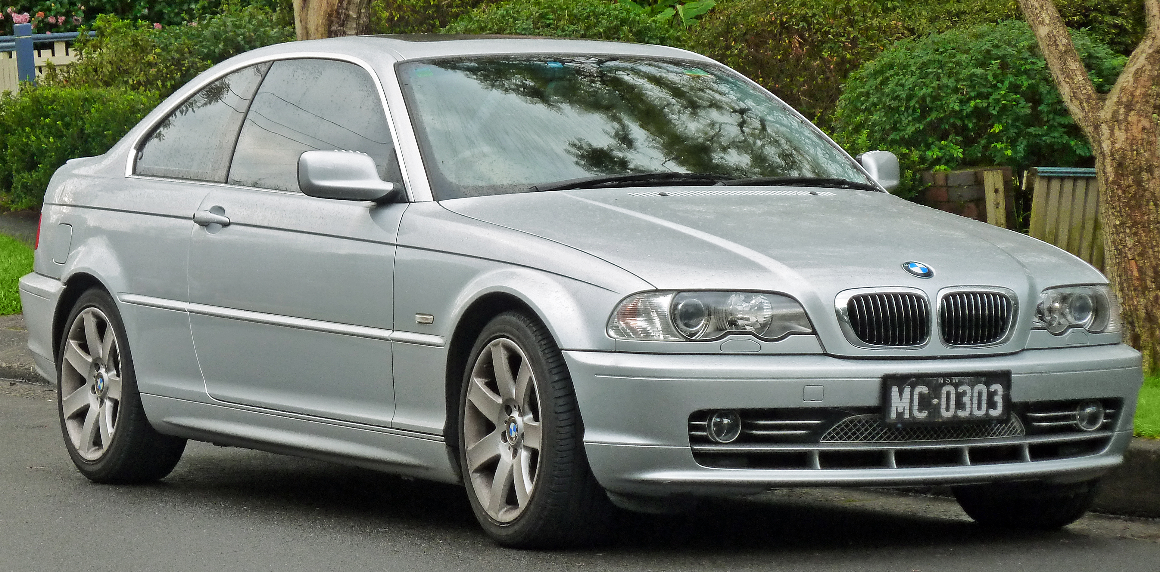 2000–2003 BMW 330Ci (E46) coupe. Photographed in Roseville, New South Wales, Australia.